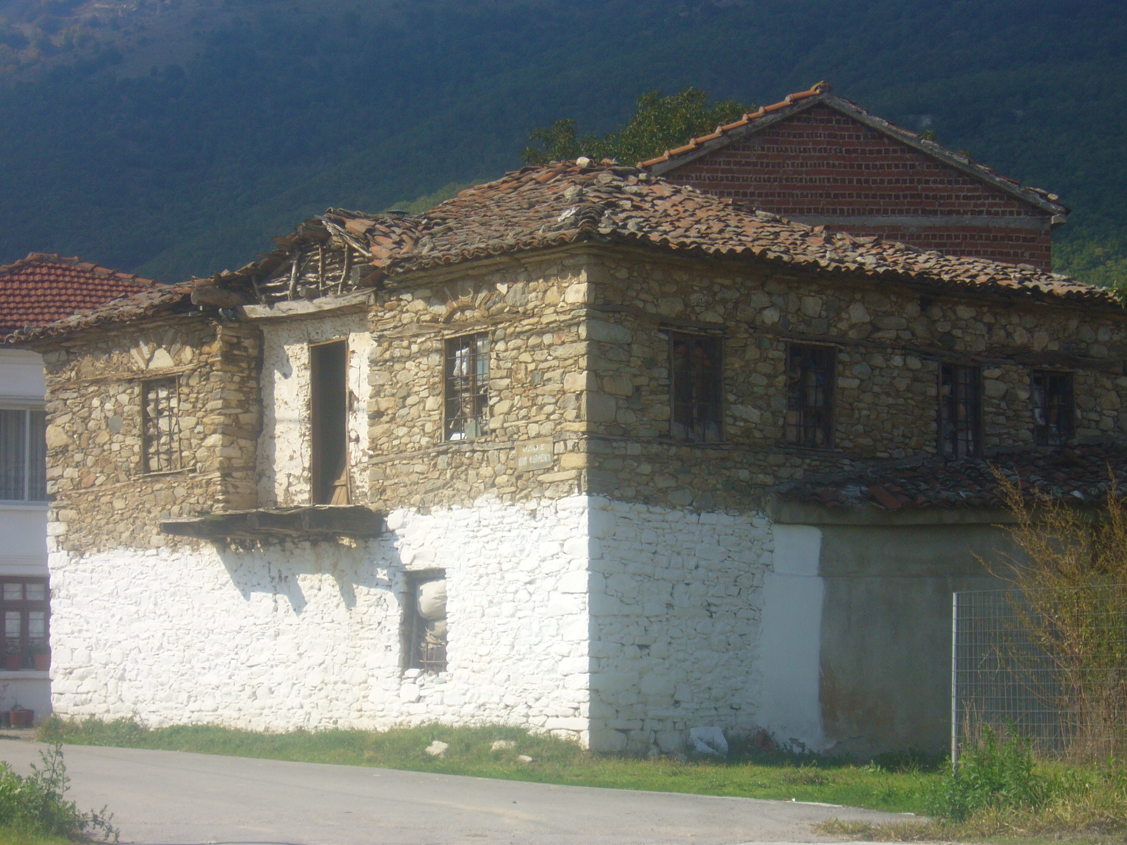 Sklithro village, Florina Prefecture, Region of Westmacedonia, Greece.